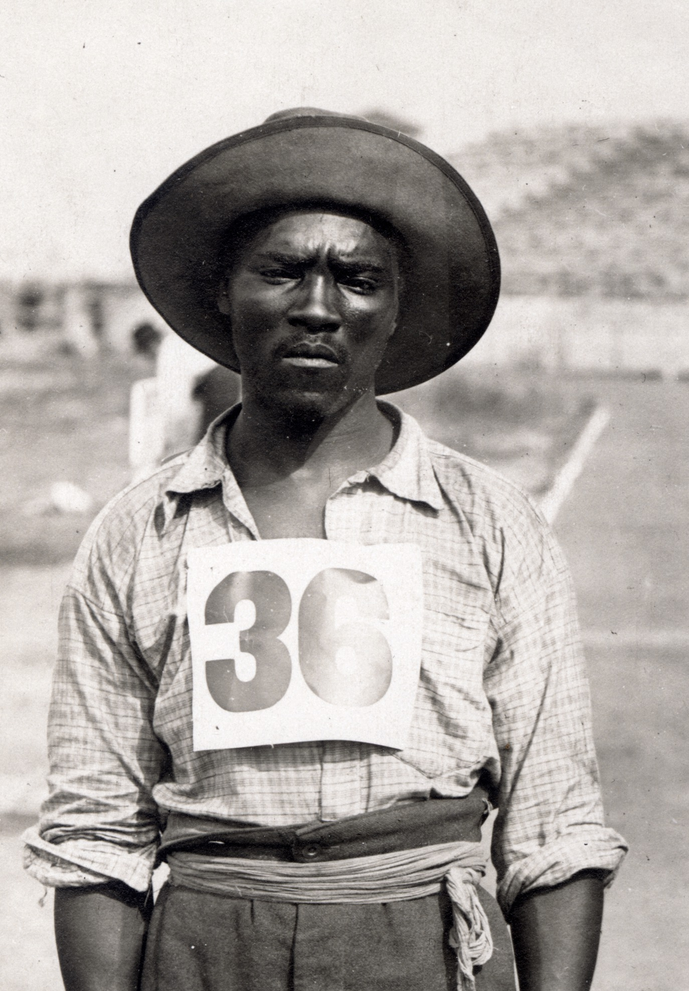 Len Tau (left) and Jan Mashiani of the Tswana tribe of South Africa facing camera standing on the track.Title: 1904 Olympic Marathon participants, Len Tau (left) and Jan Mashiani of the Tswana tribe of South Africa.